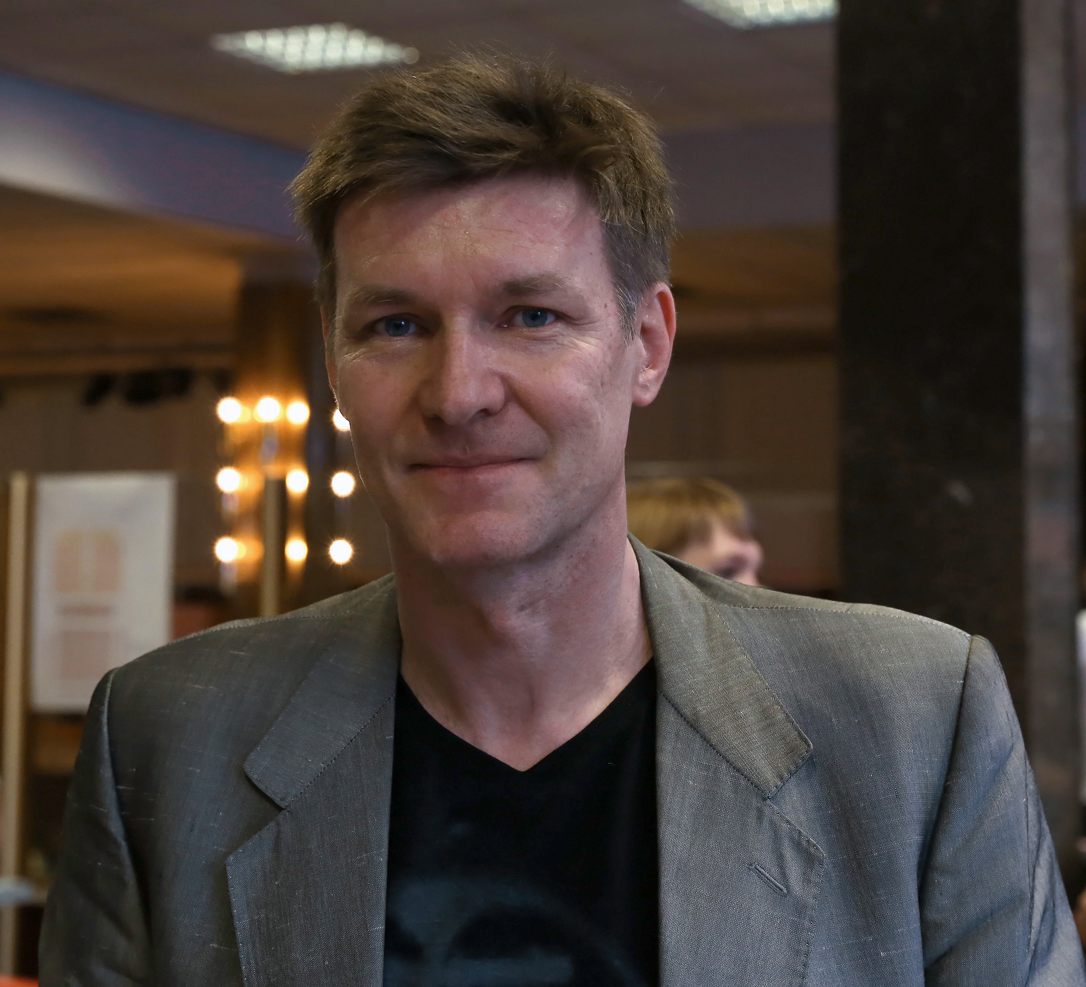 Stefan Stratil at the opening of the film festival Vienna Independent Shorts 2014 at Gartenbaukino in Vienna, Austria.